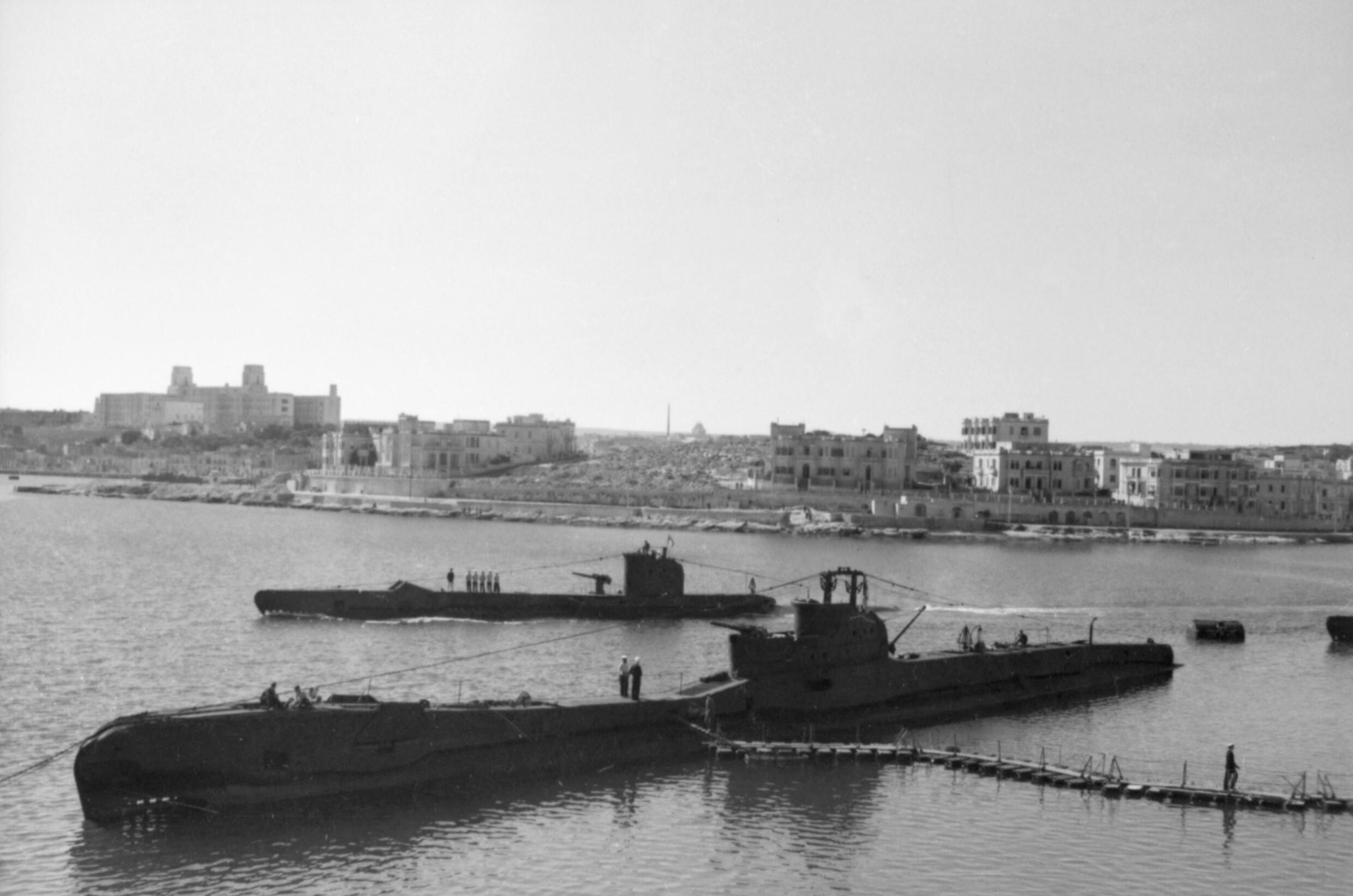 The Royal Navy during the Second World War HMS UNISON, passing HMS TAKU (nearest camera) on her way out on patrol from Malta.